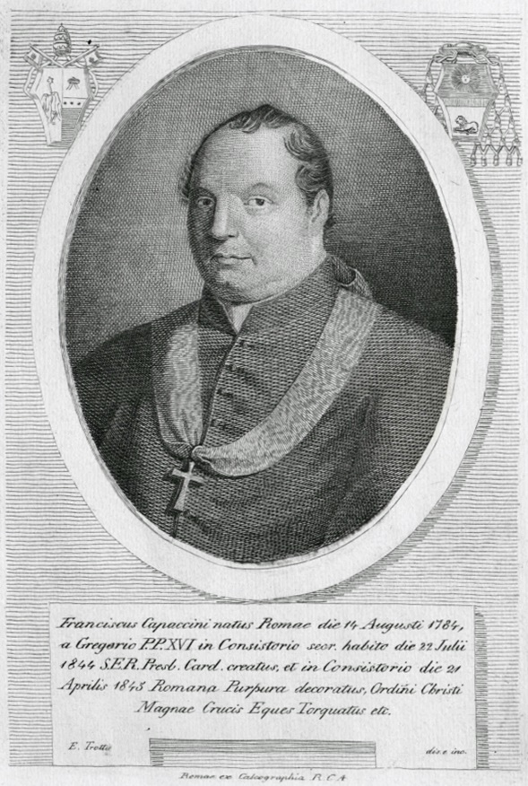 Kardinal Francesco Capaccini (1784-1845)